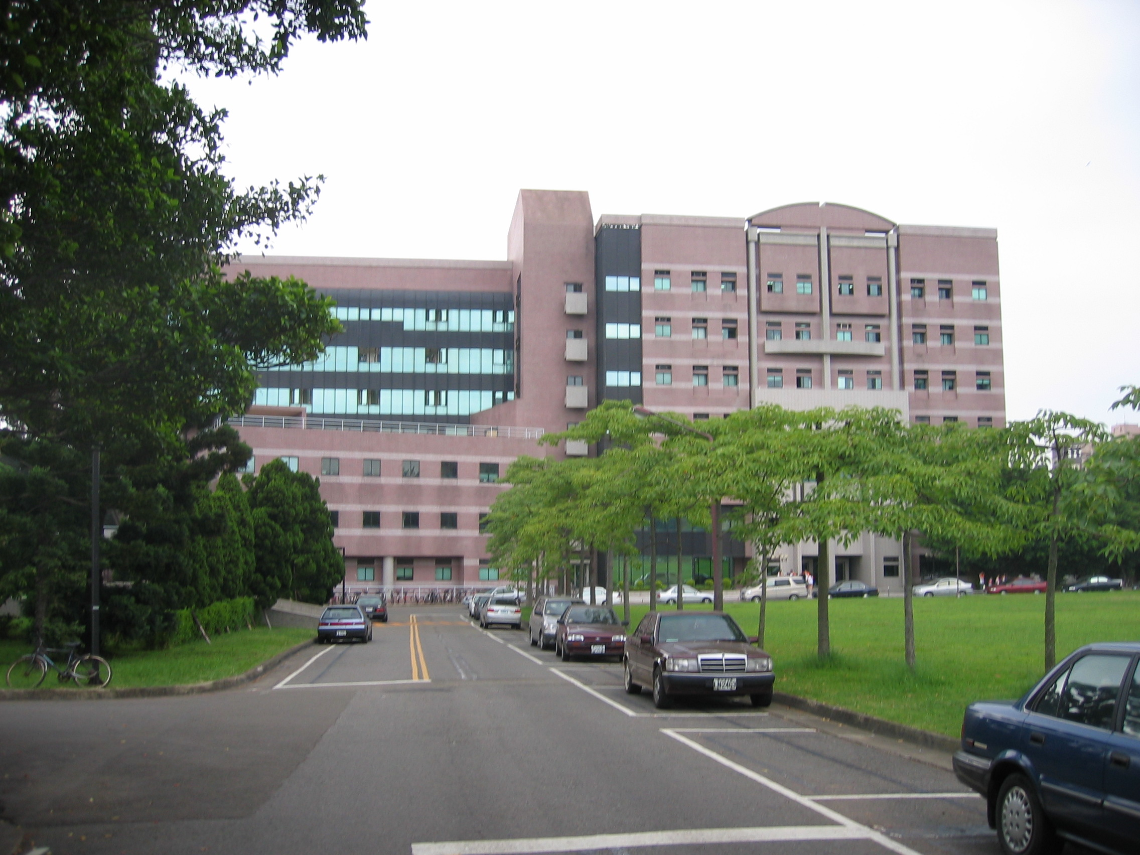 The chemistry building of National Tsinghua University in Hsinchu, Taiwan: photo taken by User:Jiang on 2005.07.30.